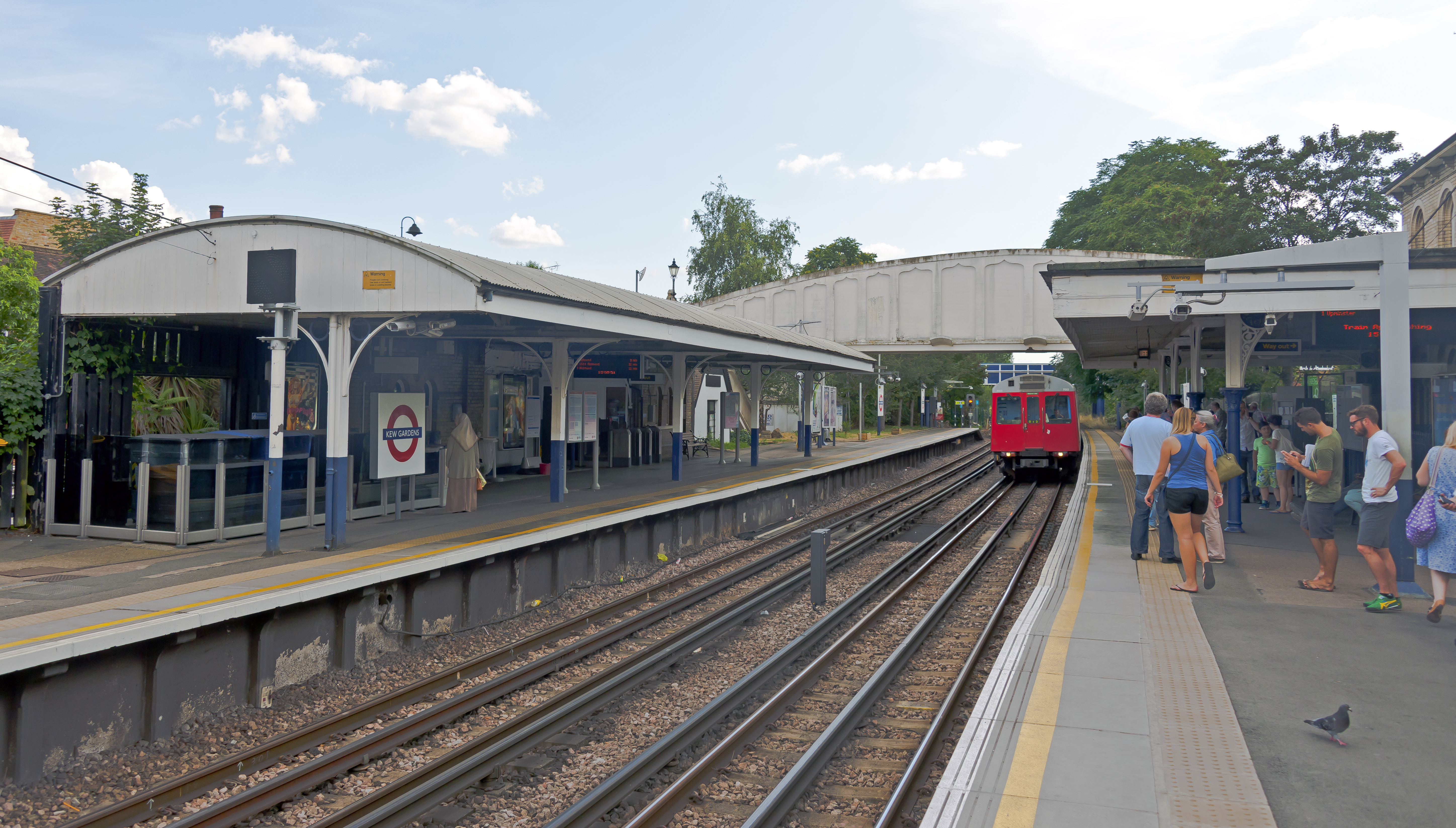 Looking south along the platform at Kew Gardens station in London as a District Line train arrives.